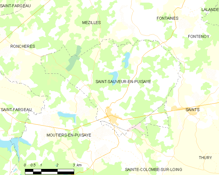 Map of French municipality Saint-Sauveur-en-Puisaye